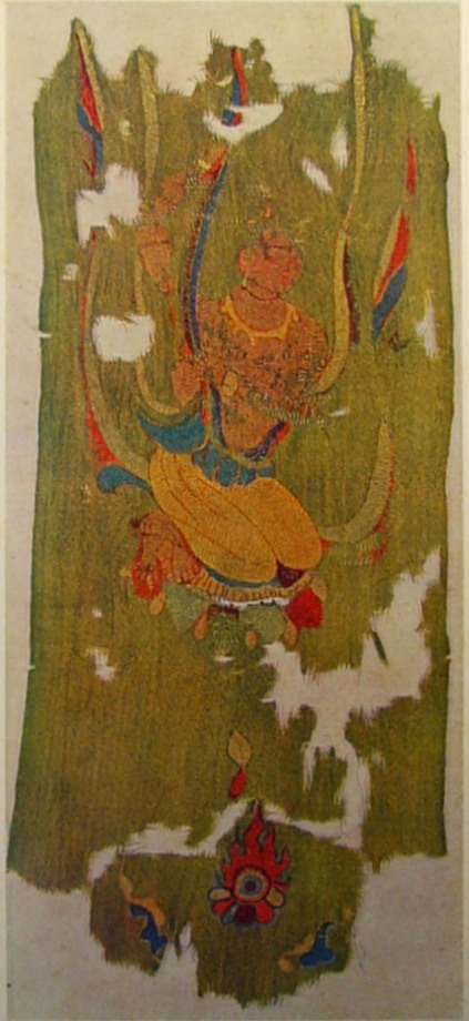 Banner for Buddist ceremony having embroidered design of heavenly beings, 30x12.8cm, Embroidery, Japan, formerly in Horyuji-temple, Nara, Japan, about 7th century.